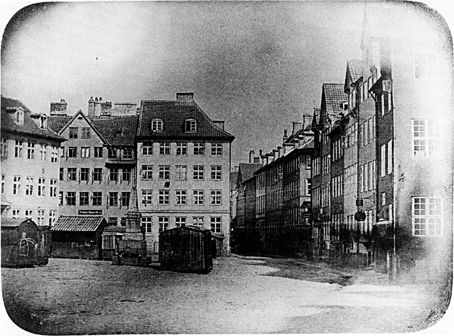 Daguerreotype of Ulfeldts Plads in Copenhagen, Denmark, taken by Peter Faber, the poet and telegraphy specialist. Dated July 1840, it is said to be Denmark's first photograph.